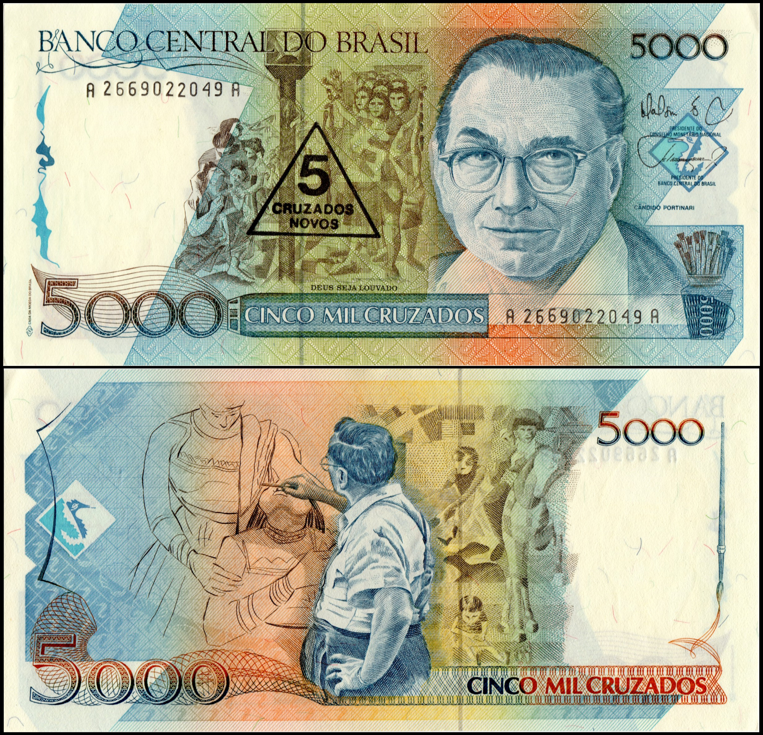 A Brazilian 5000 cruzado banknote overstamped with a value of 5 cruzados novos. The cruzado novo replaced the cruzado as Brazil's currency at a rate of 1:1000 in January 1989. The initial cruzado novo banknotes were 1000, 5000, and 10,000 cruzado banknotes overstamped with their value in cruzados novos (1, 5, and 10 cruzados novos, respectively). The banknote features Brazilian artist Candido Portinari on both sides. The dark, vertical line is a plain security thread embedded in the paper. The line is visible even without backlighting and appears in this scan about the same as it does when the bill is placed on a dark surface.